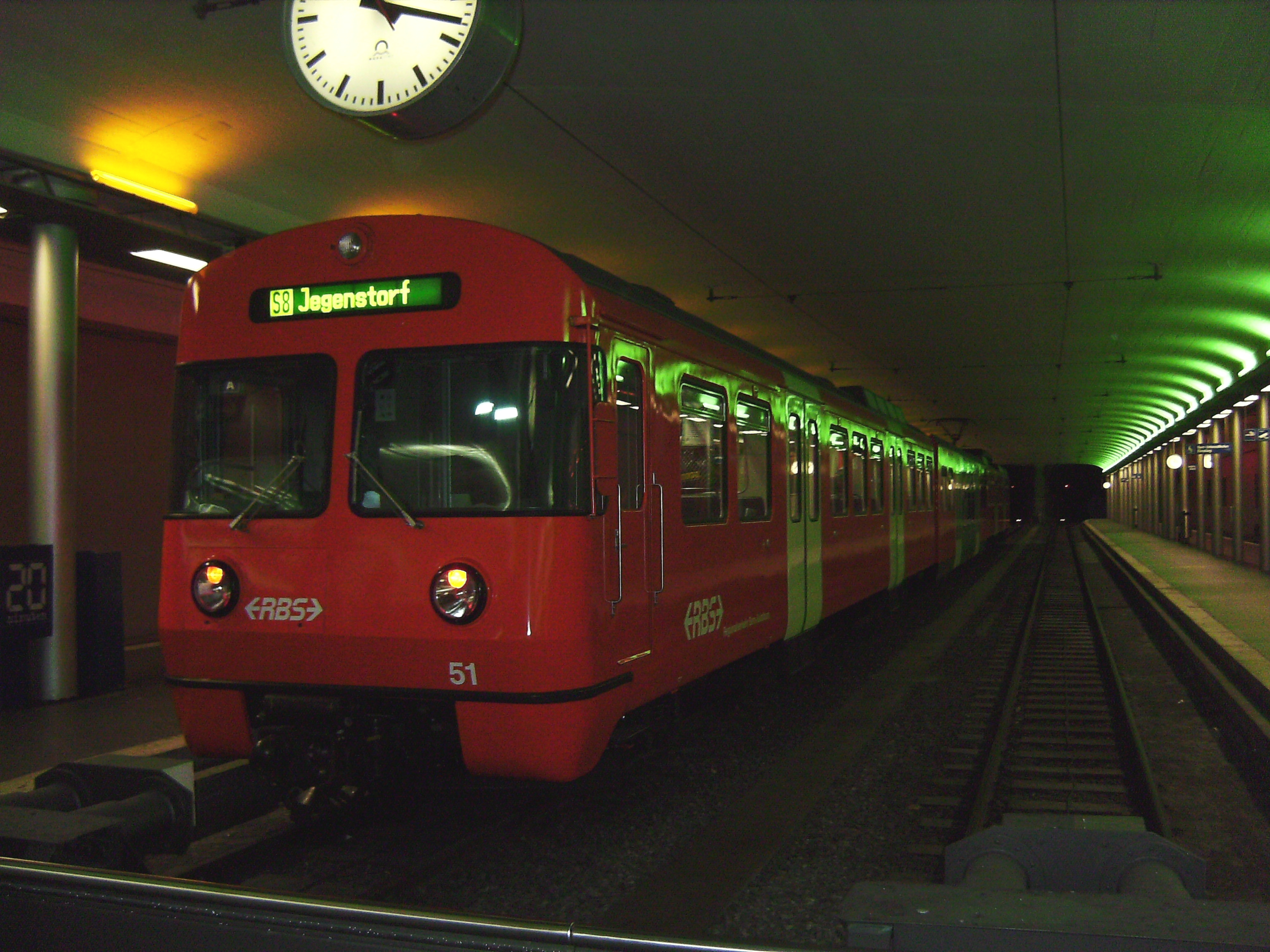 Train of the Regionalverkehr Bern-Solothurn line S8 (narrow gauge) in the underground terminal of the Bern train station.